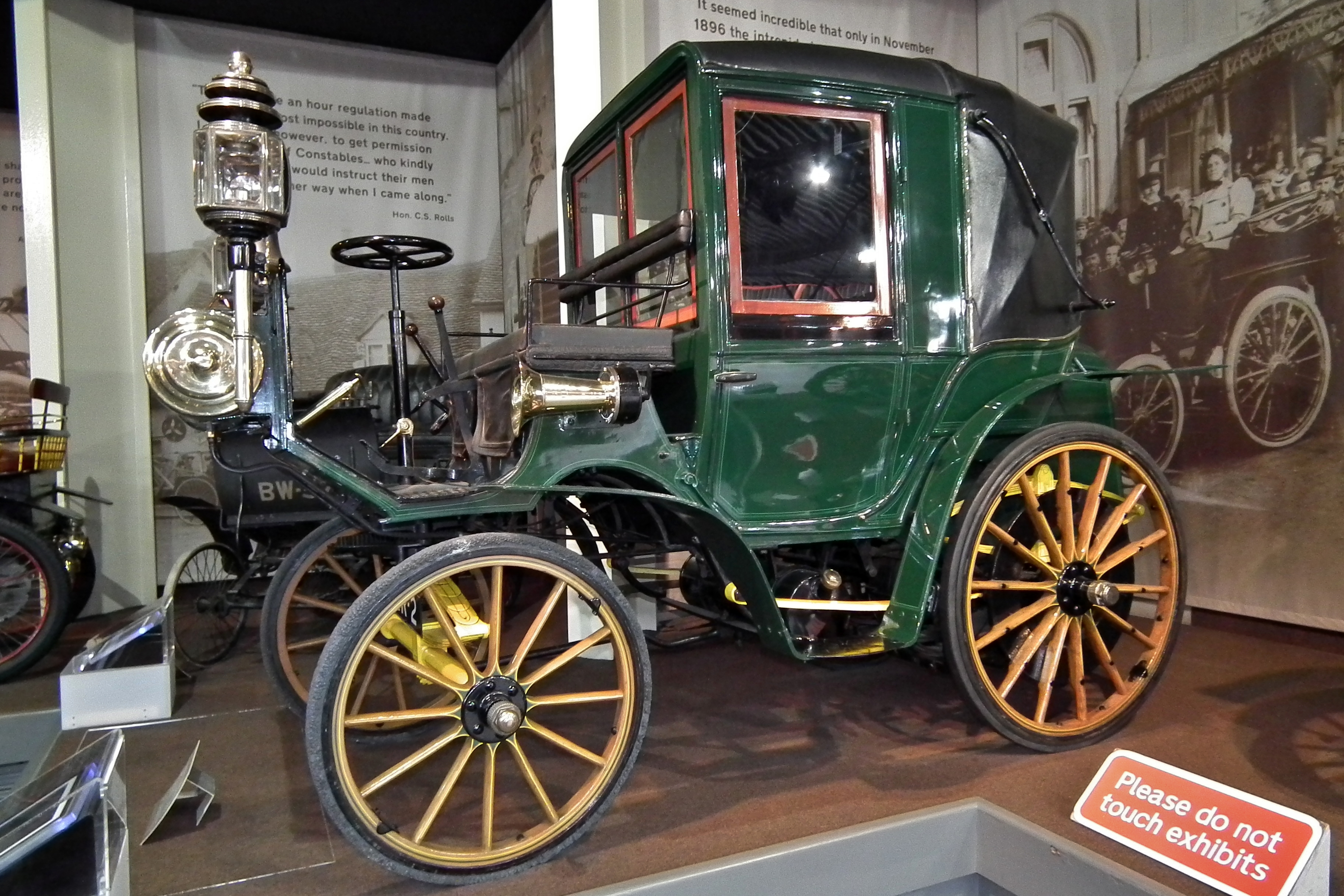 1898 Daimler Cannstatt. Taken at the National Motor Museum in Beaulieu, Hampshire, England.